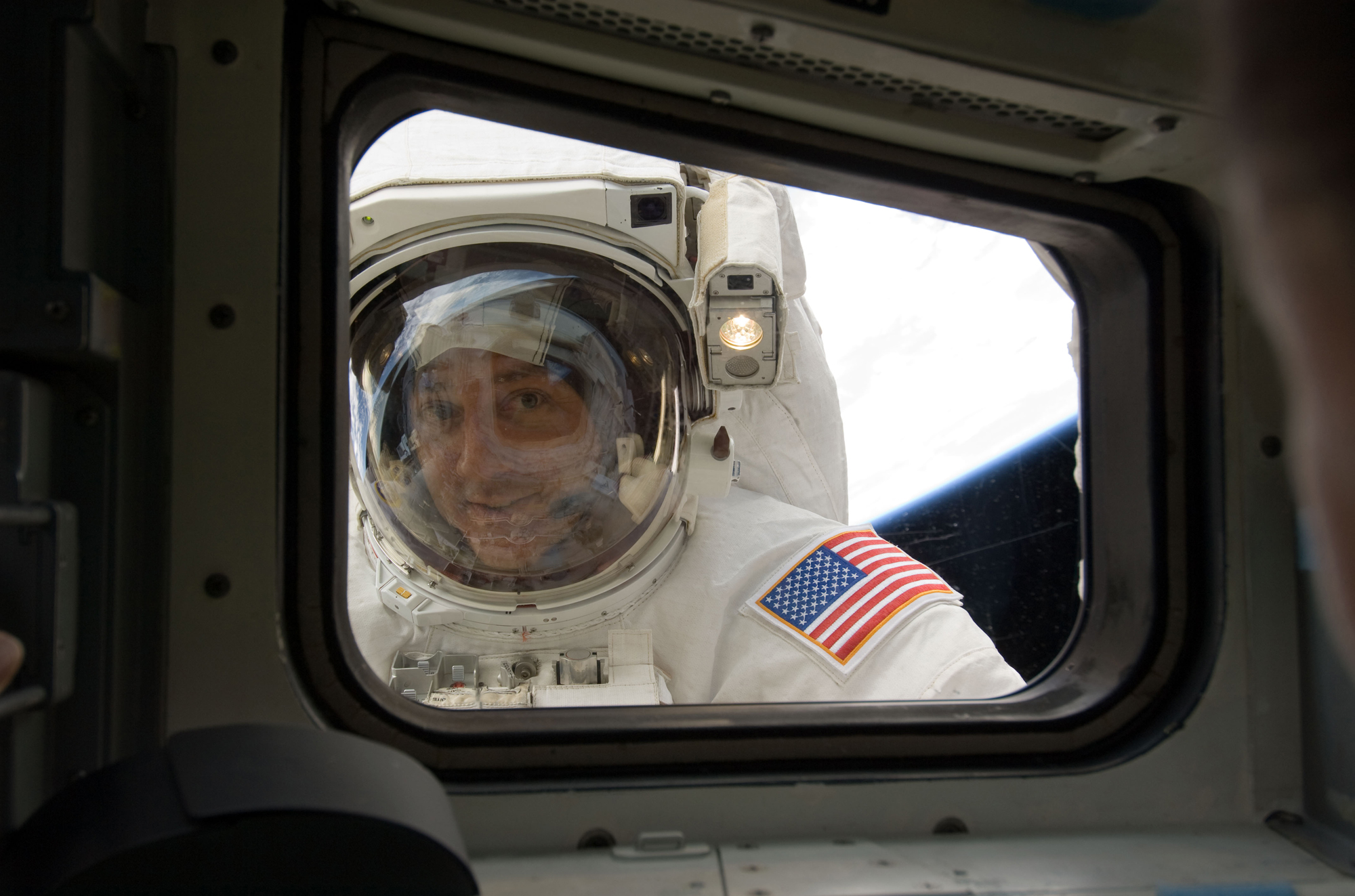 Astronaut Mike Massimino, STS-125 mission specialist, is photographed from an aft flight deck window of the Space Shuttle Atlantis during the mission's fourth session of extravehicular activity (EVA) as work continues to refurbish and upgrade the Hubble Space Telescope.